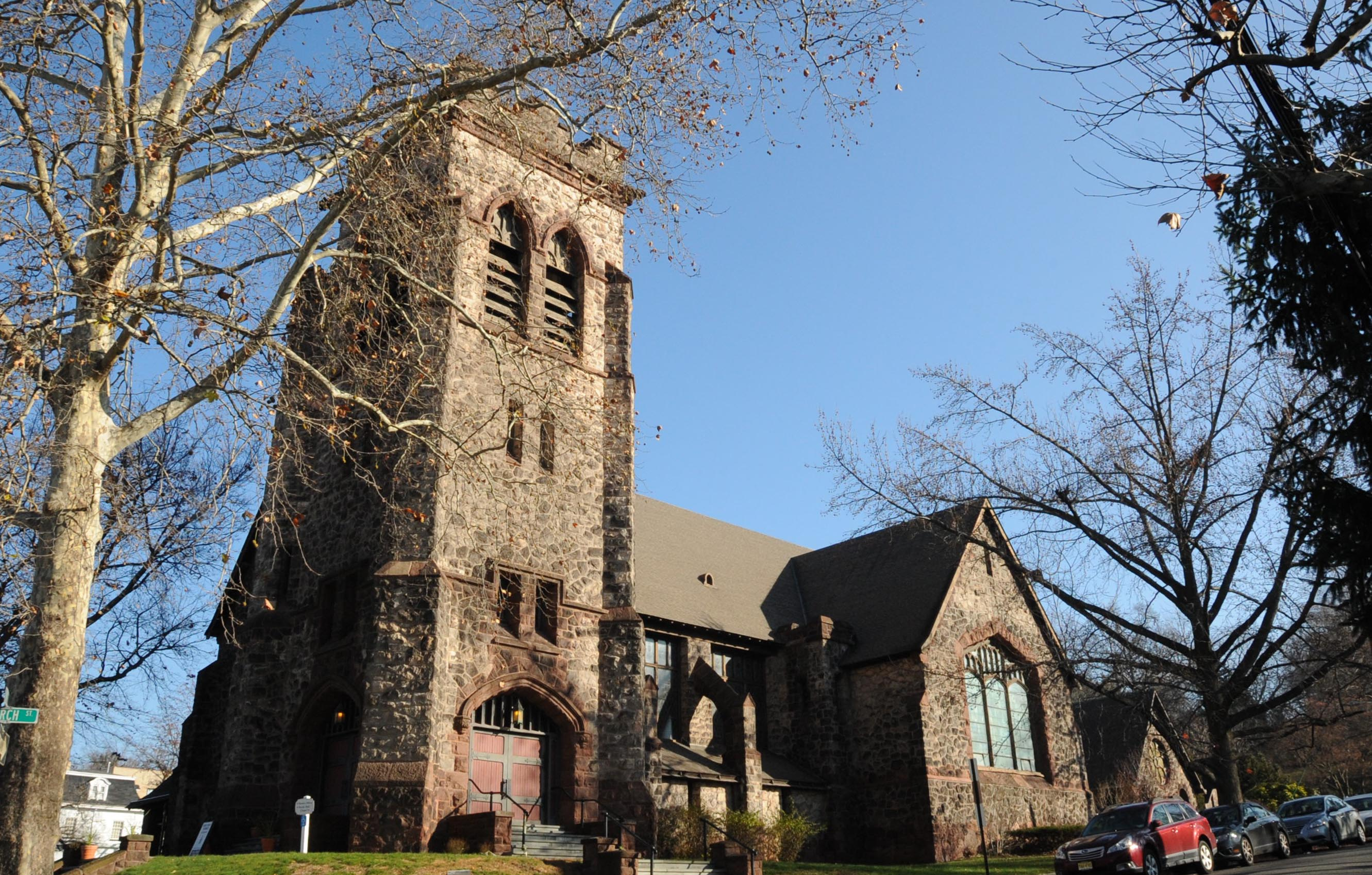 FOUNDED IN 1865 BUT THE PRESENT GOTHIC CHURCH WAS BUILT IN 1899 USING MATERIALS FROM THE THE ORIGINAL 1866 CHURCH